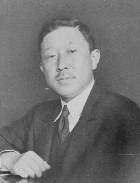 Yoshiatsu Nakano.